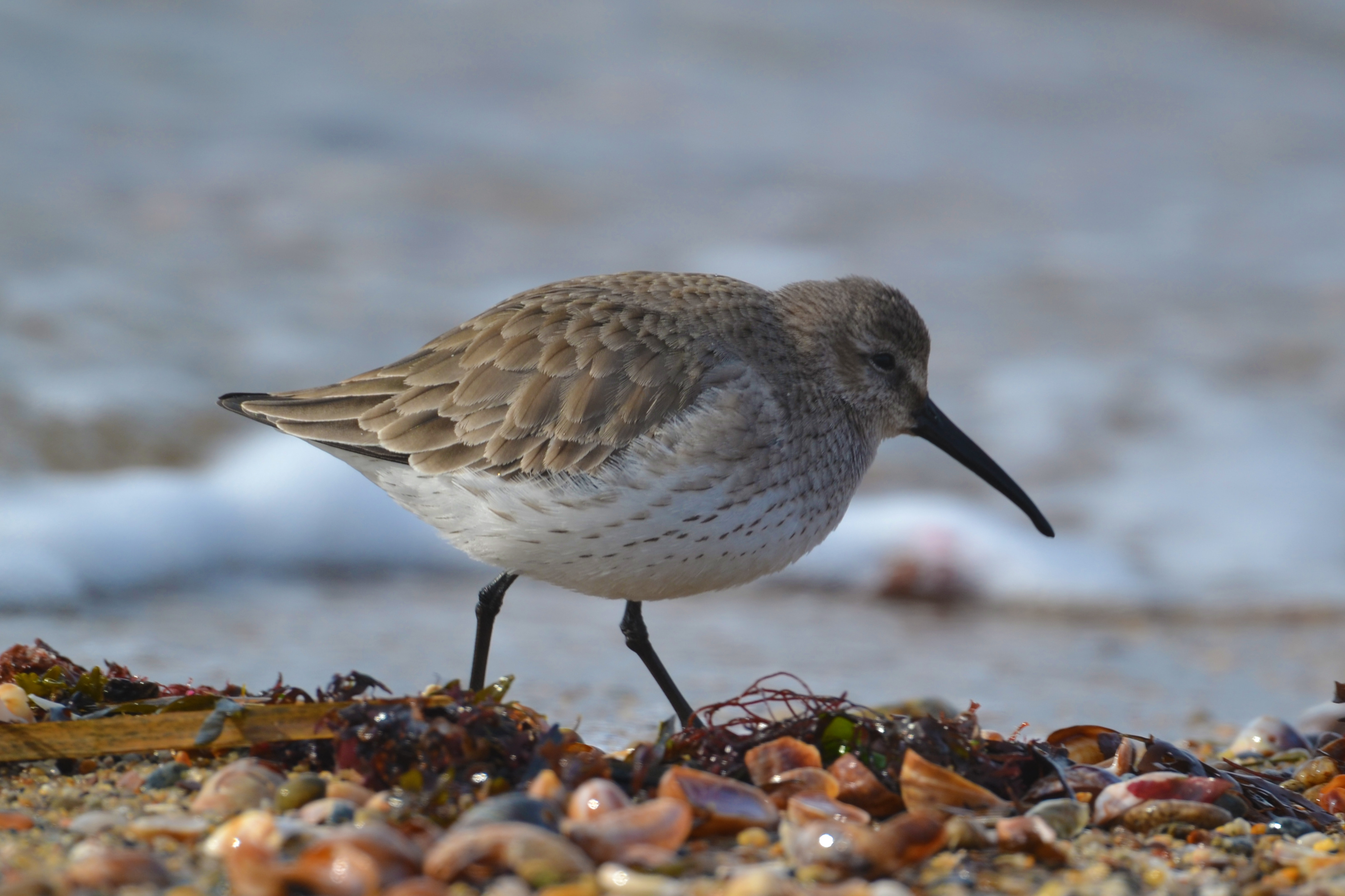 Hammonasset State Park, Madison, Connecticut